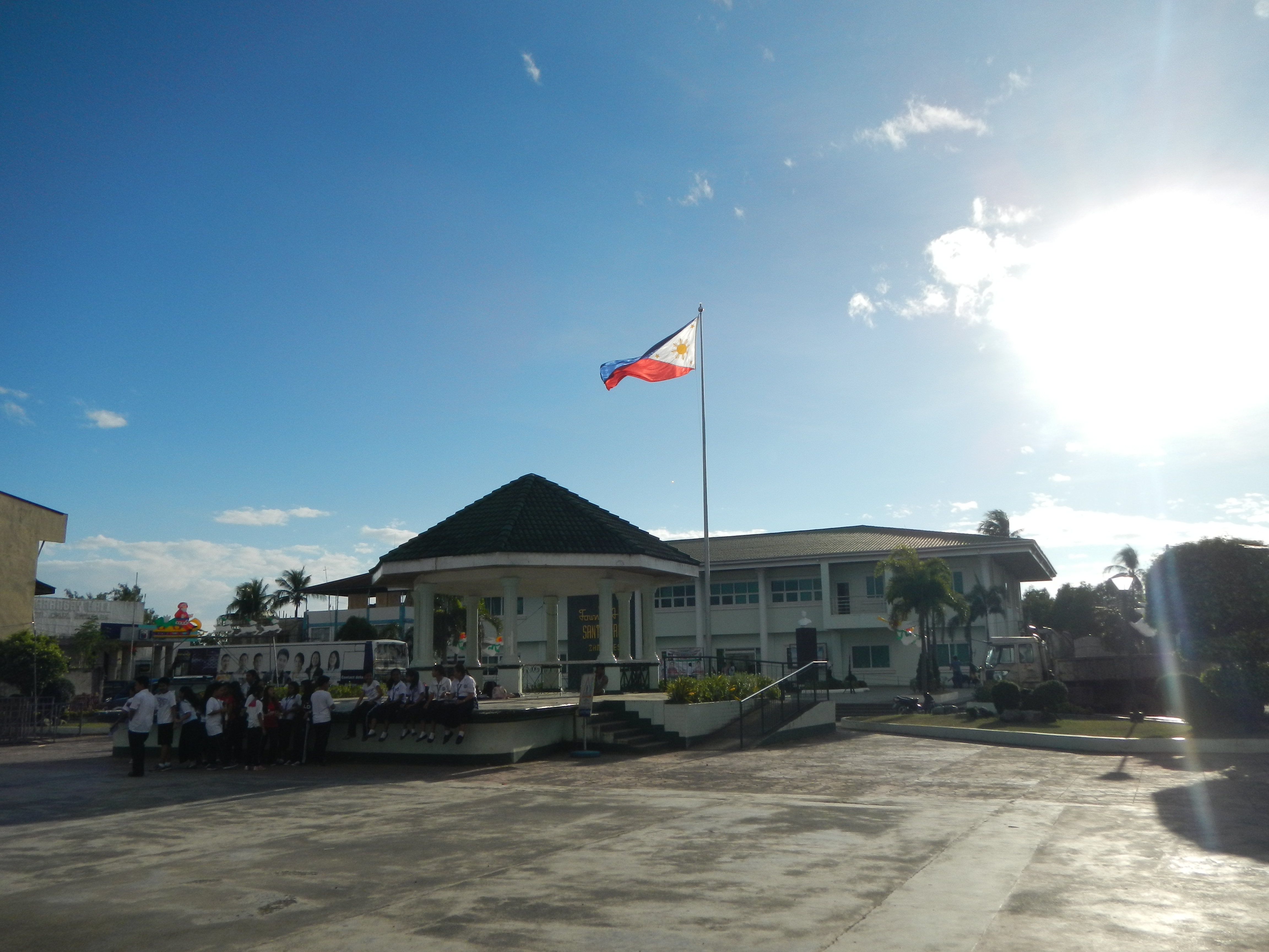 Upload Wizard Panorama photos -- (General description, 3-dimension angle by angle photography of this town, church & landmarks) --Santa Cruz, Zambales[1] - Centro, downtown, Town Proper. CI Restaurant, Rural Bank of Candelaria, Zambales, Inc., beside the Municipal Plaza with Jose Rizal Monument, in front of the Santa Cruz Town Hall Complex, Compound, the Police Station, SMMAK-CBR Santa Cruz Academy besidet the Saint Michael the Archangel Parish Church of Santa Cruz - [2] (F-1812) Sta. Cruz, 2213 Zambales Titular: St. Michael the Archangel, September 29 Parish Priest: Rev. Fr. Ernesto Raymundo Parochial Vicar: Rev. Fr. Noriel Salvador Attached: Rev. Fr. Rodel San Juan - Northern Vicariate Vicar Forane: Rev. Fr. Ernesto Raymundo - Roman Catholic Diocese of Iba).